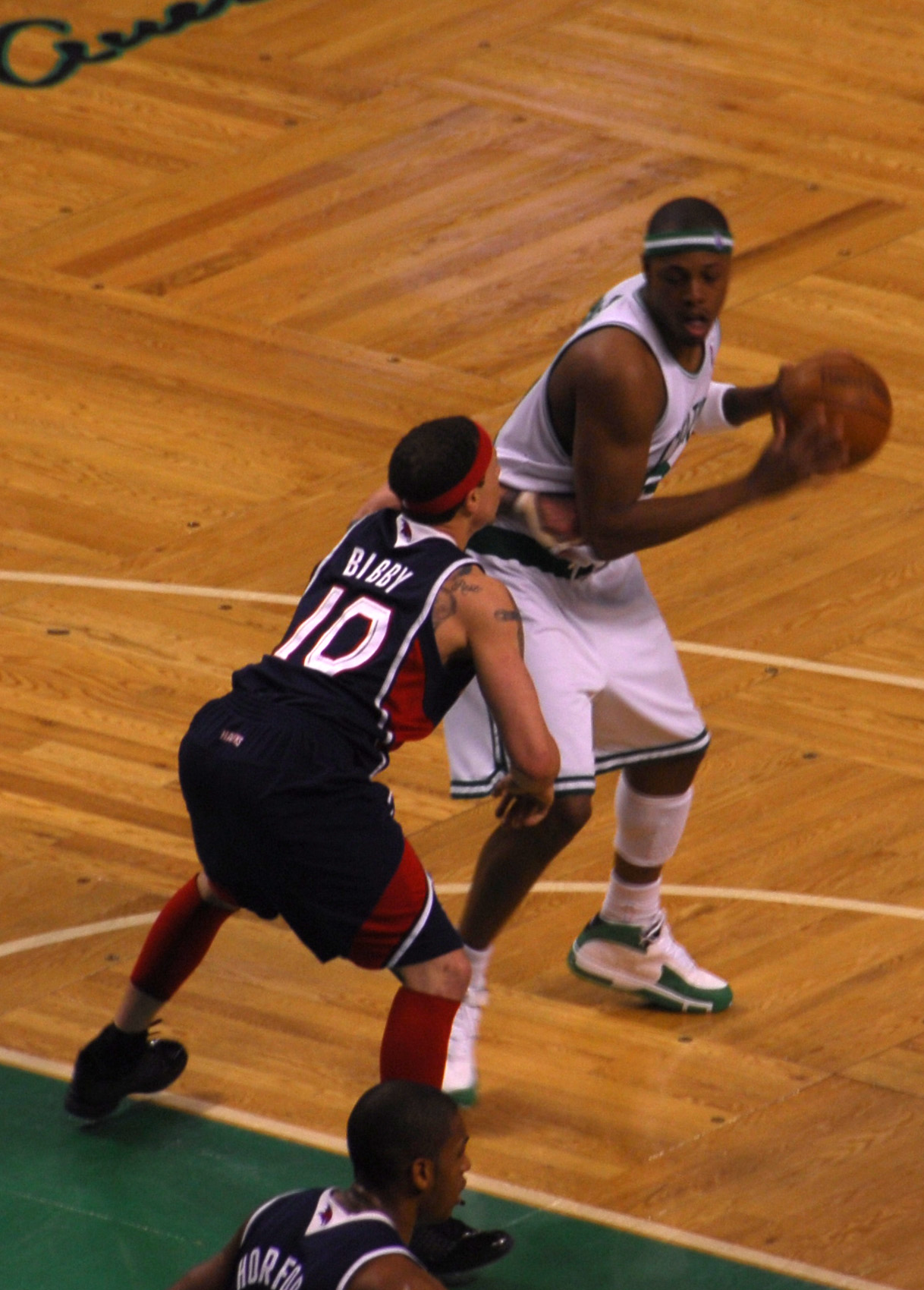 Pierce Abuses Bibby